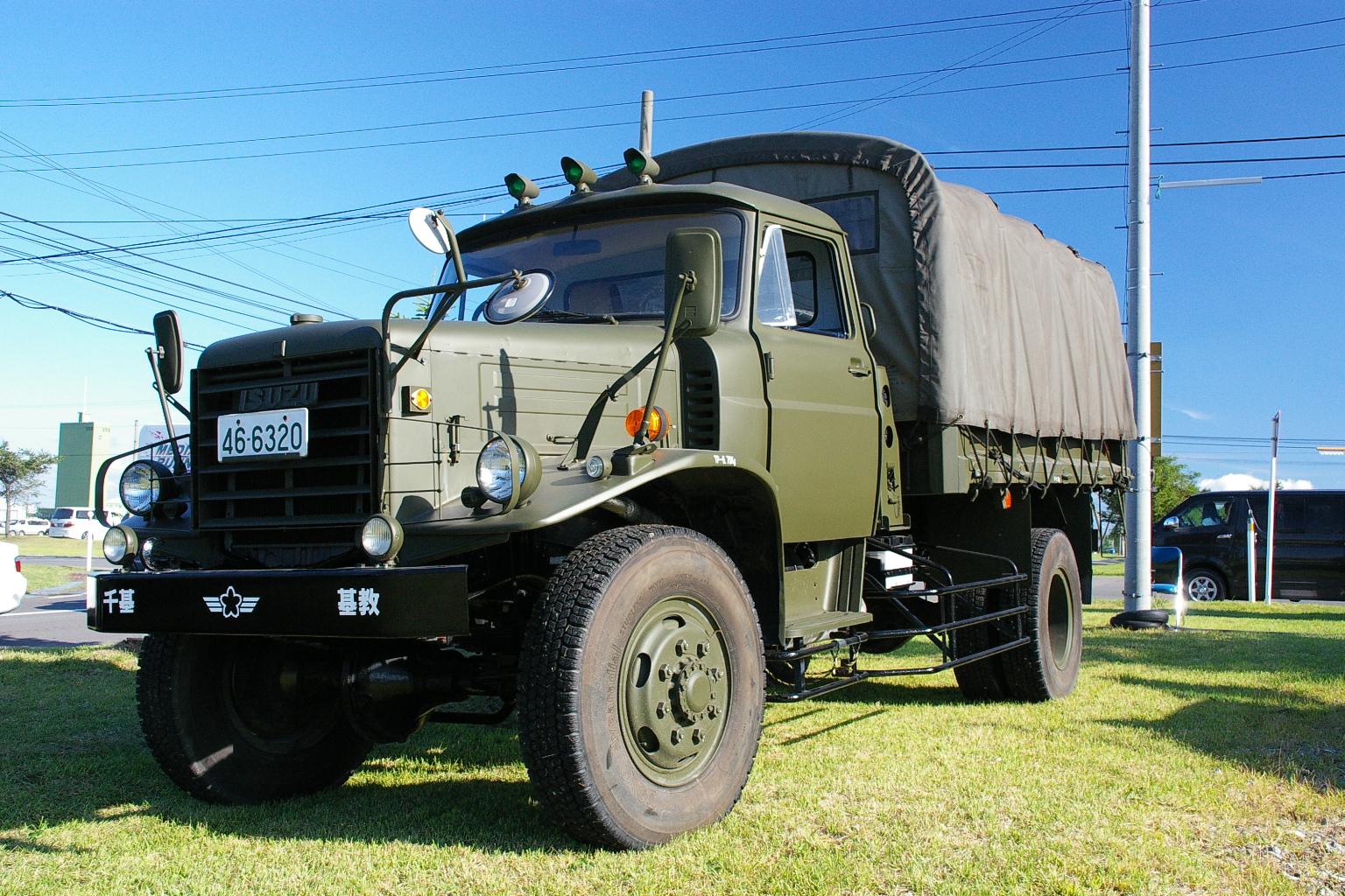 The bonnet track which the Air Self Defense Force uses.